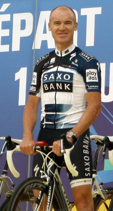 Stuart O'Grady at the team presentation of the 2010 Tour de France in Rotterdam